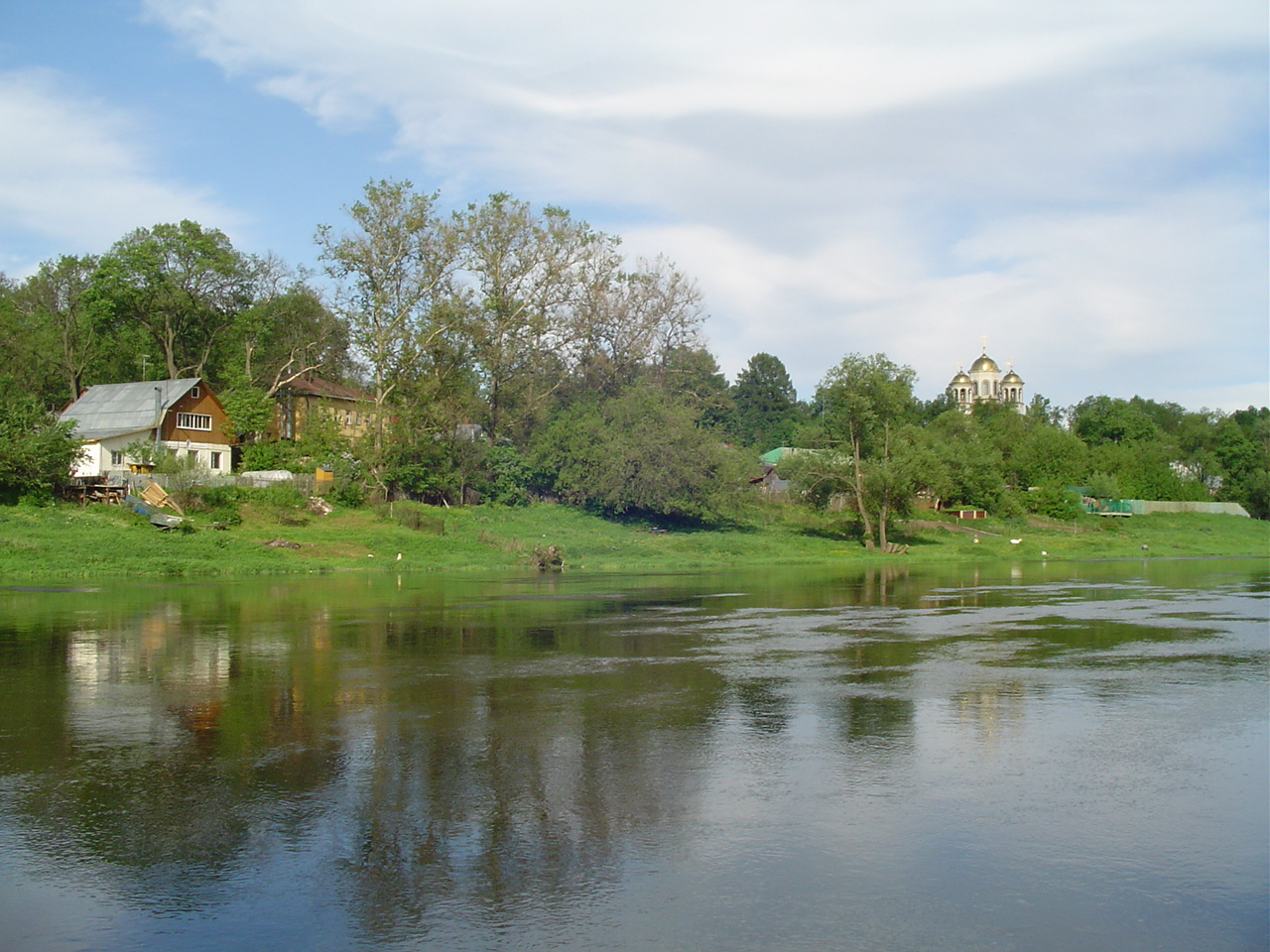 Moskva river in Zvenigorod, Moscow Oblast, Russia